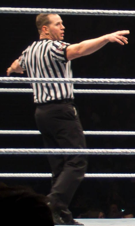 Chad Patton refereeing at a WWE Raw house show in London on November 11, 2011